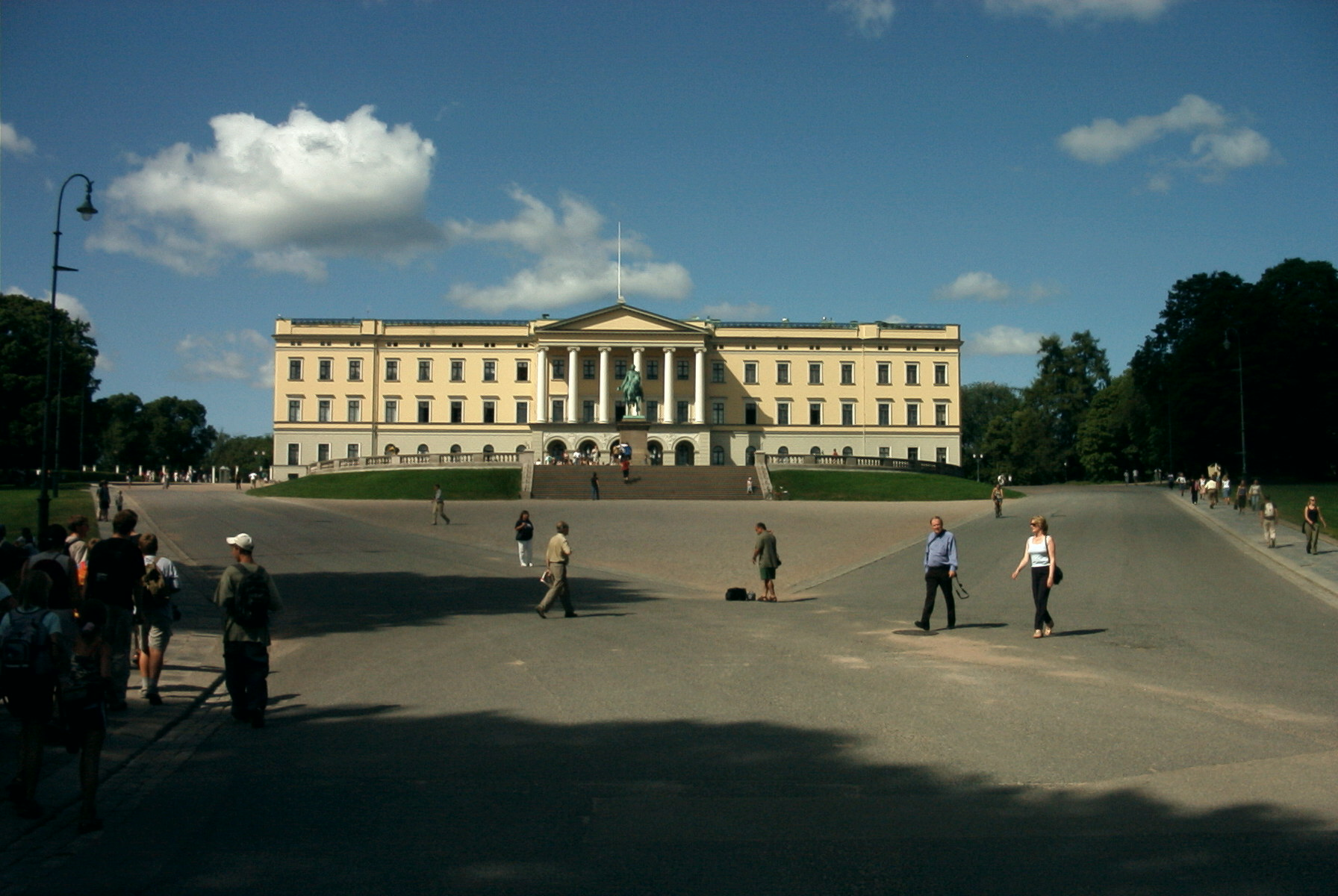 The Royal Palace in Oslo in summer 2003